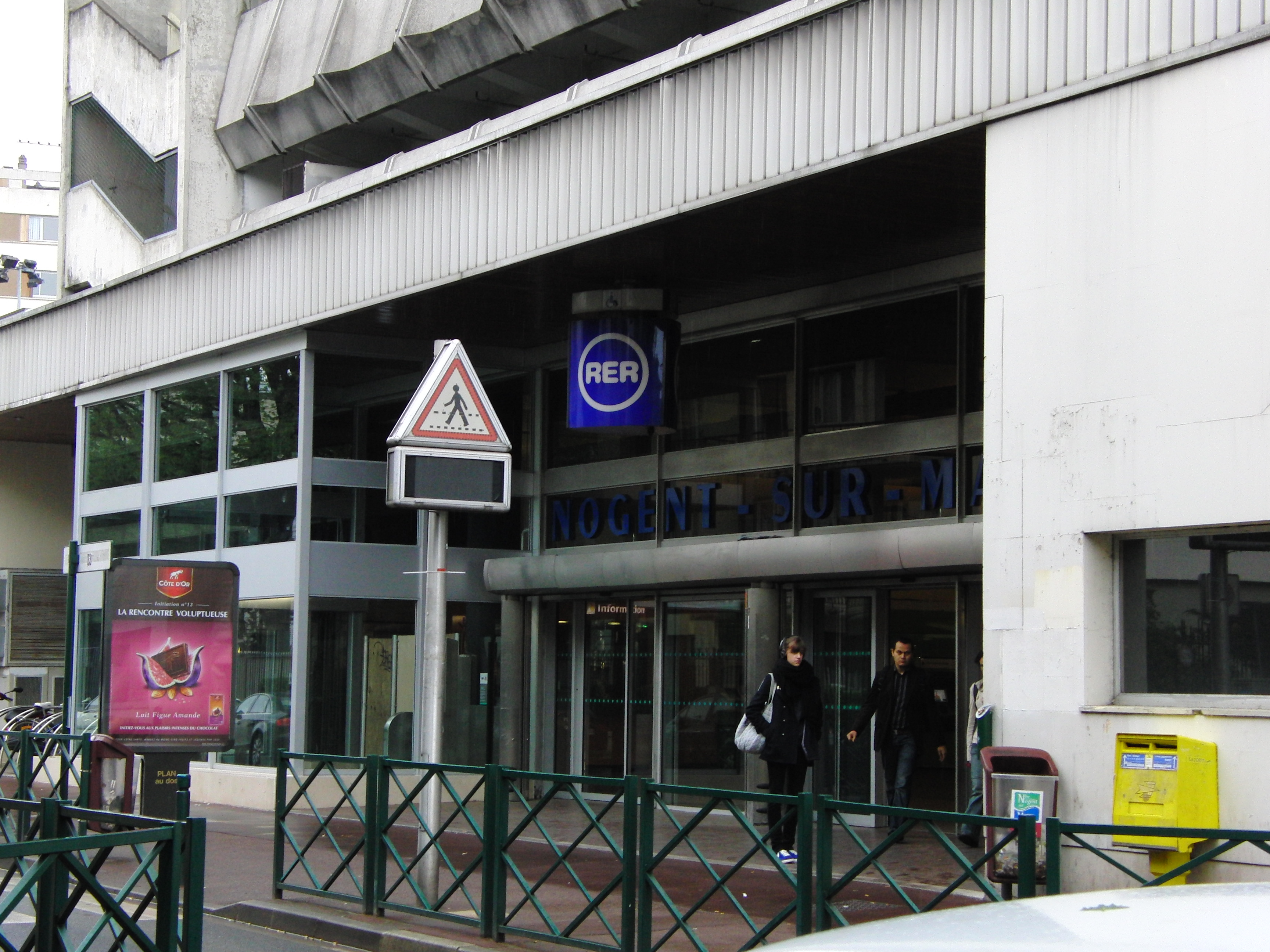 Nogent sur Marne station in April 2009